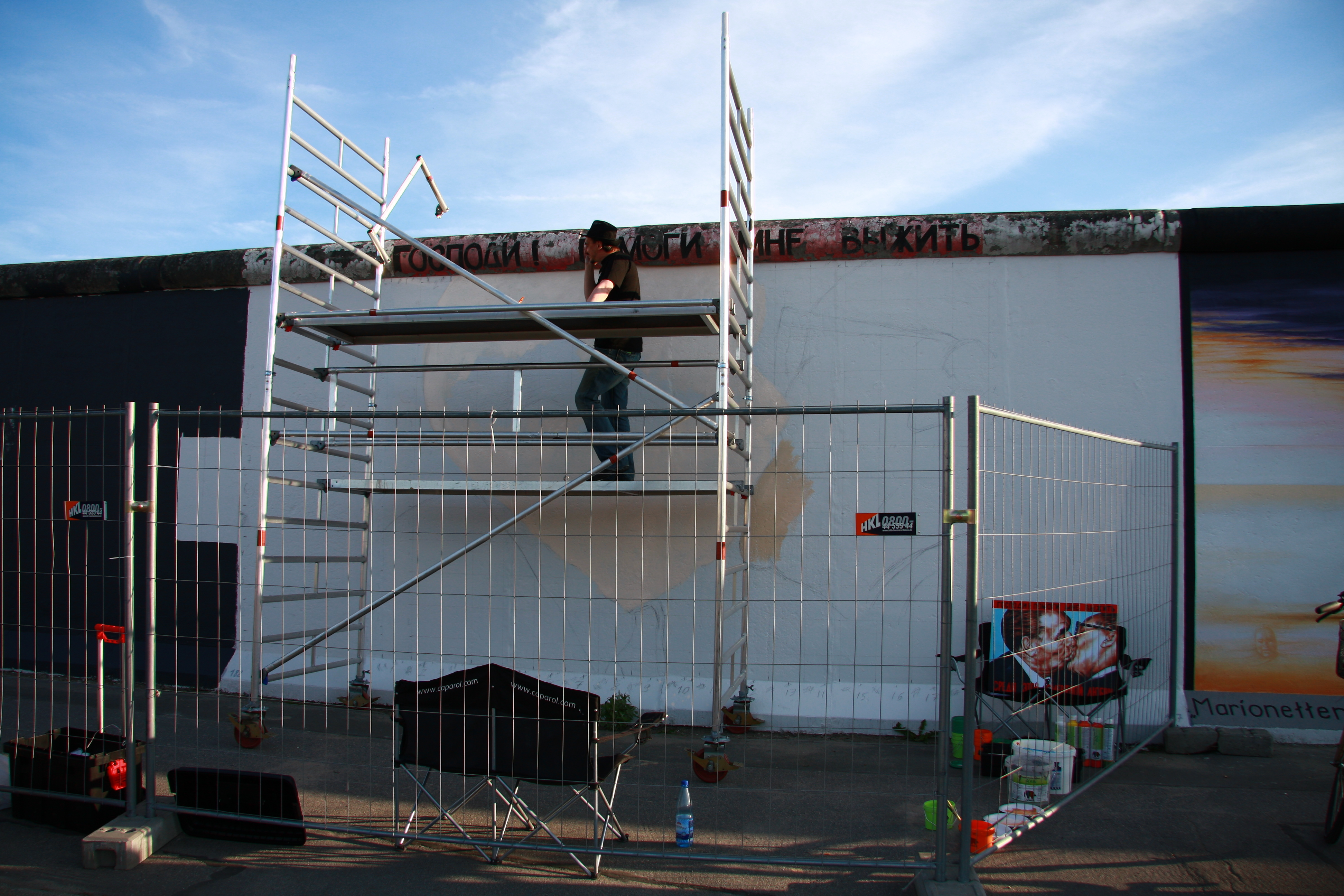 Dmitri Vrubel repaints his famous painting "brotherly kiss" on the East Side Gallery, one of the few remains of the Berlin Wall